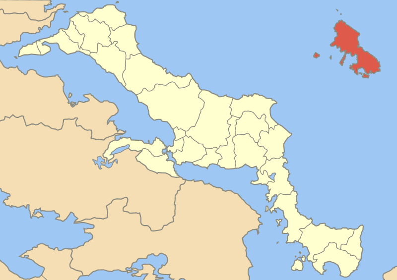 Locator map of Skyros municipality (Δήμος Σκύρου) in Euboea prefecture (Νομός Εύβοιας) in Greece.